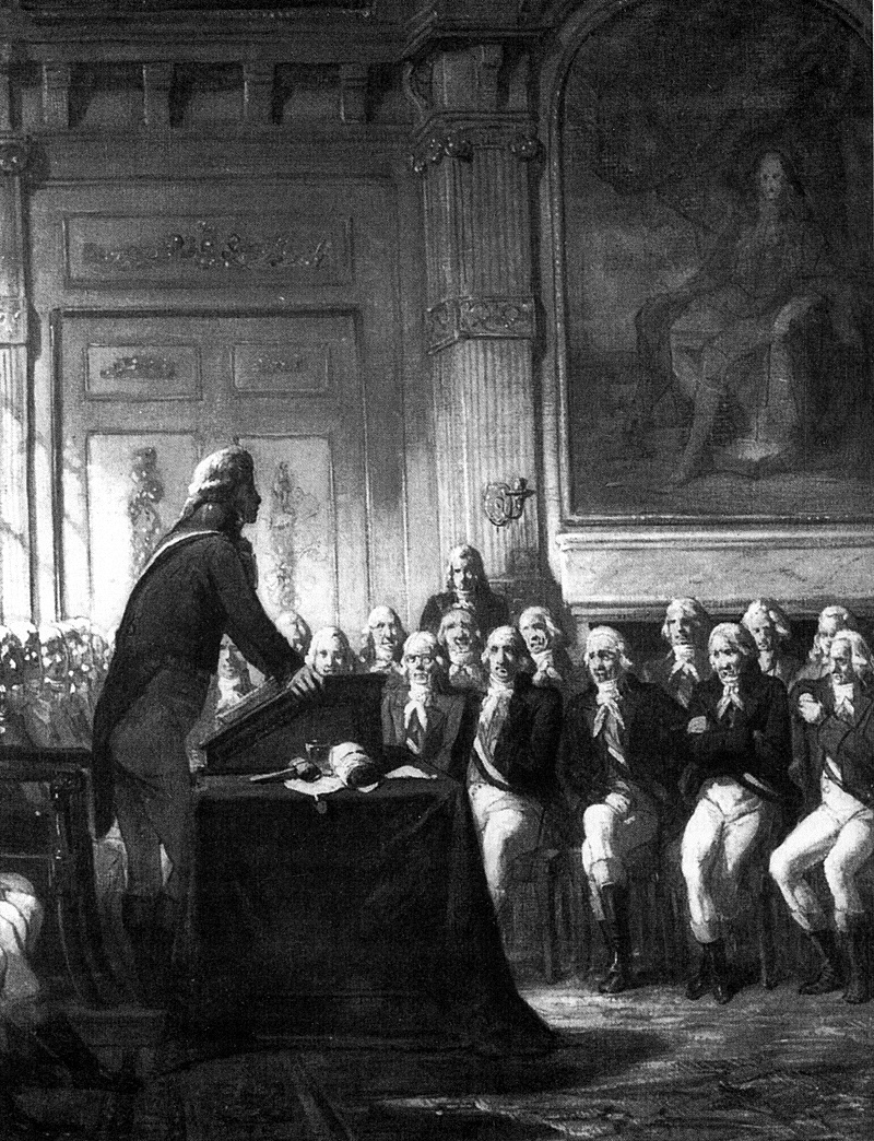 Opening of the National Assembly of the Batavian Republic in 1796 by its chairman Pieter Paulus.